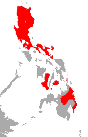 Philippine Forest Roundleaf Bat (Hipposideros obscurus) range